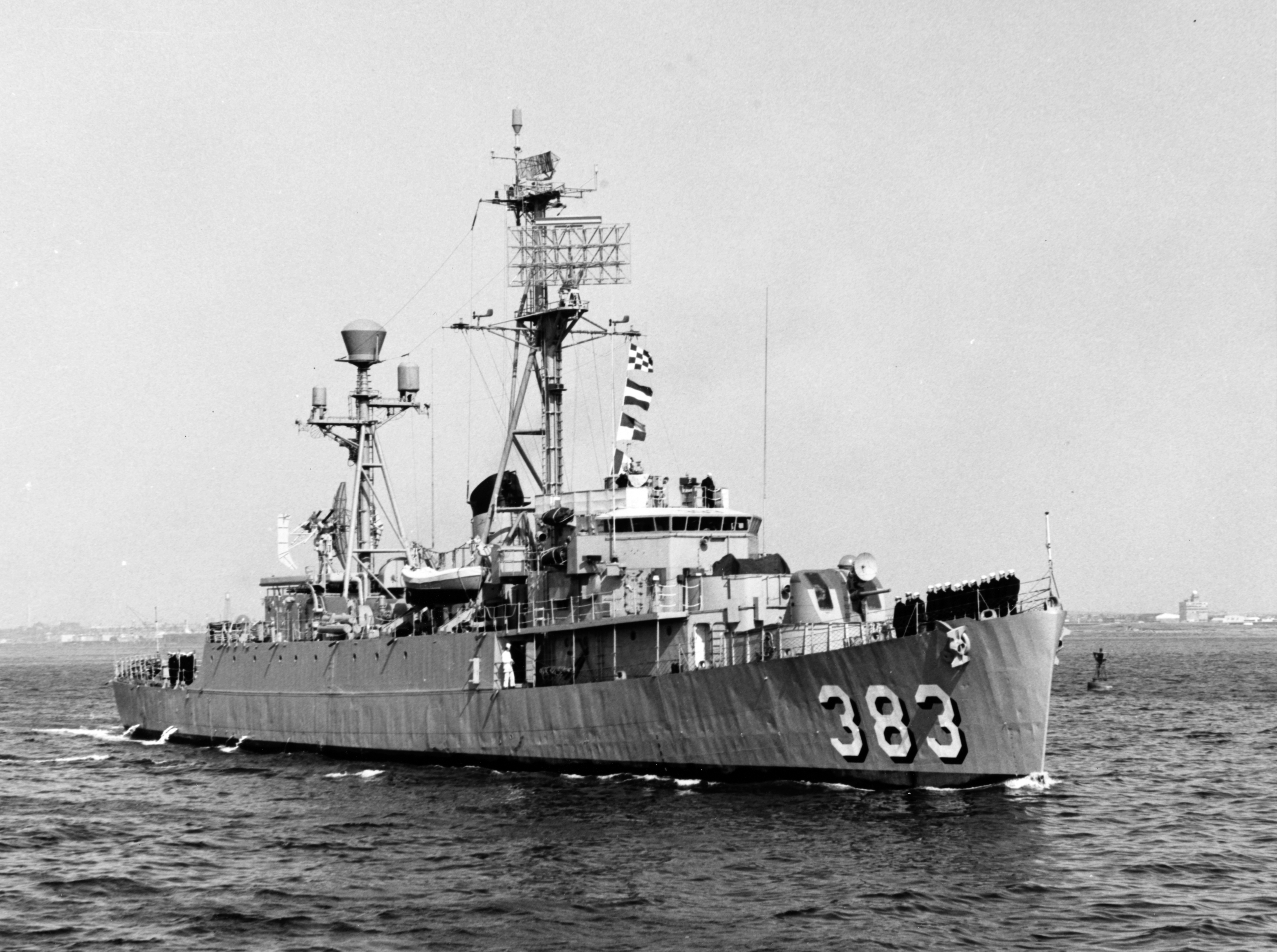 The U.S. Navy radar picket destroyer escort USS Mills (DER-383) underway in Boston Harbor, Massachusetts (USA), on 30 March 1964. In 1964-65, Mills participated in Operation "Deep Freeze" in Antarctia.